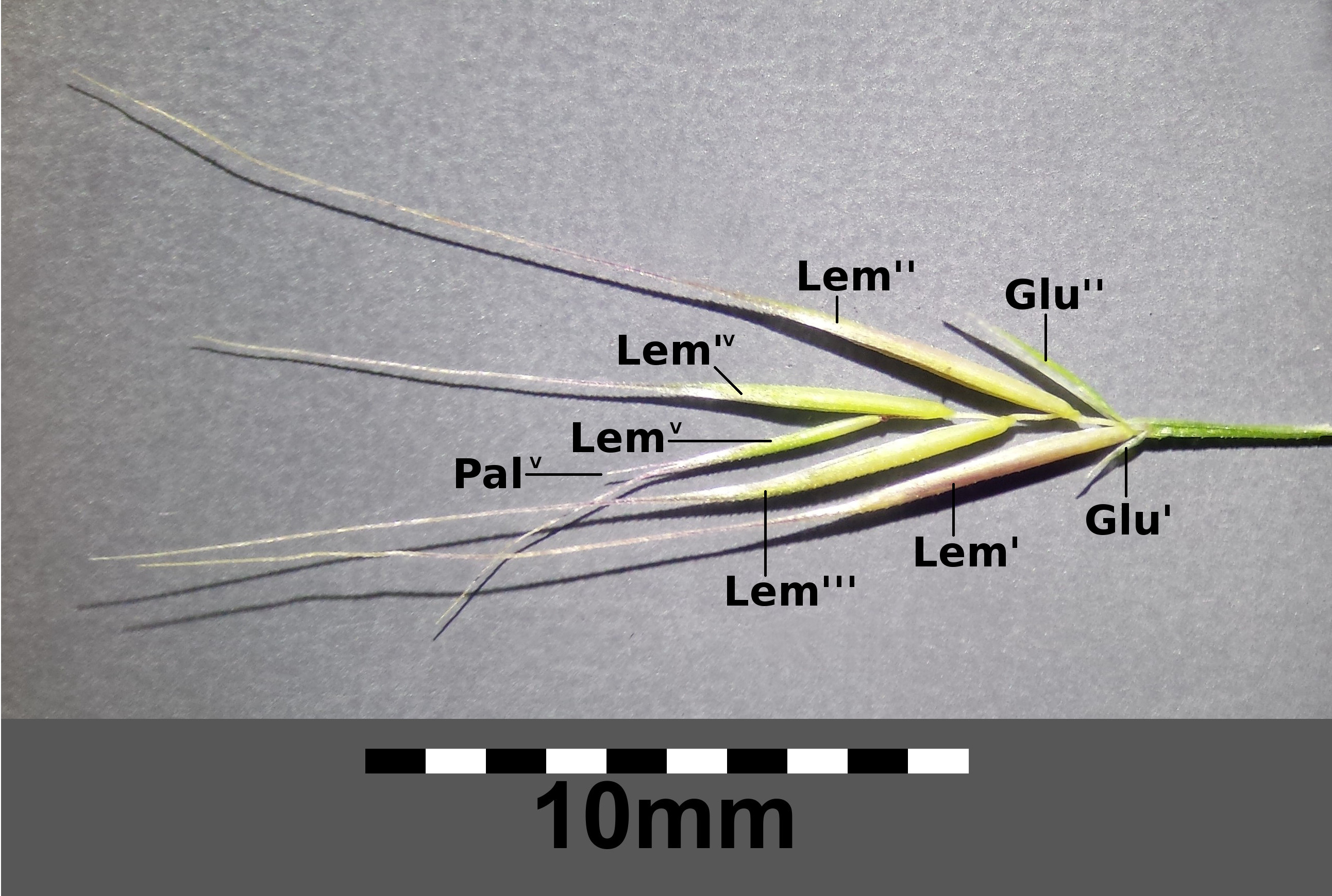 Spikelet with lower and upper Gluma (Glu) and five Lemma (Lem) and Palea (Pal) Taxonym: Vulpia myuros ss Fischer et al. EfÖLS 2008 ISBN 978-3-85474-187-9 Location: Floridsdorf rail station, Vienna-Floridsdorf - ca. 160 m a.s.l. Habitat: ruderal area